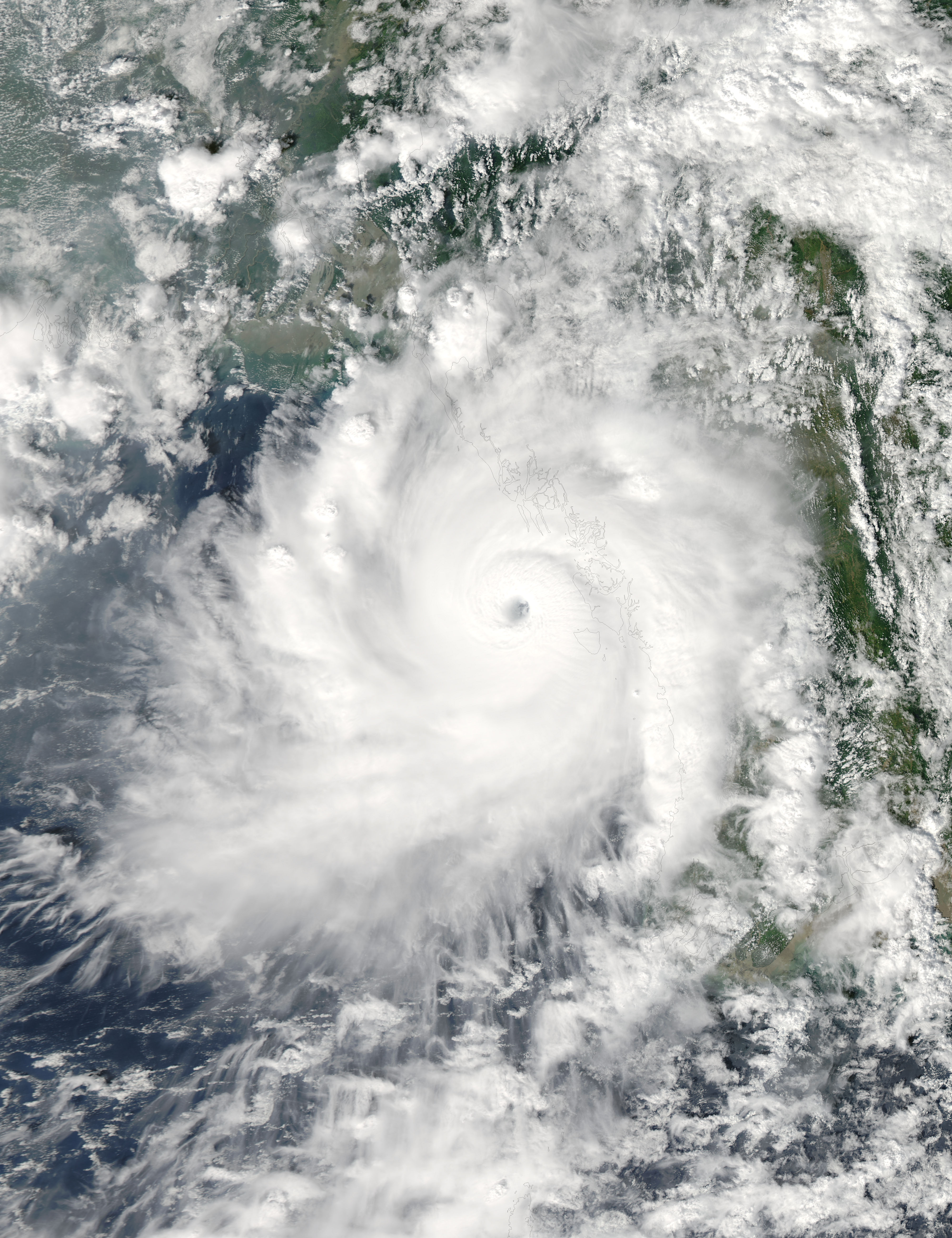 Tropical Cyclone Giri (04B) over Myanmar